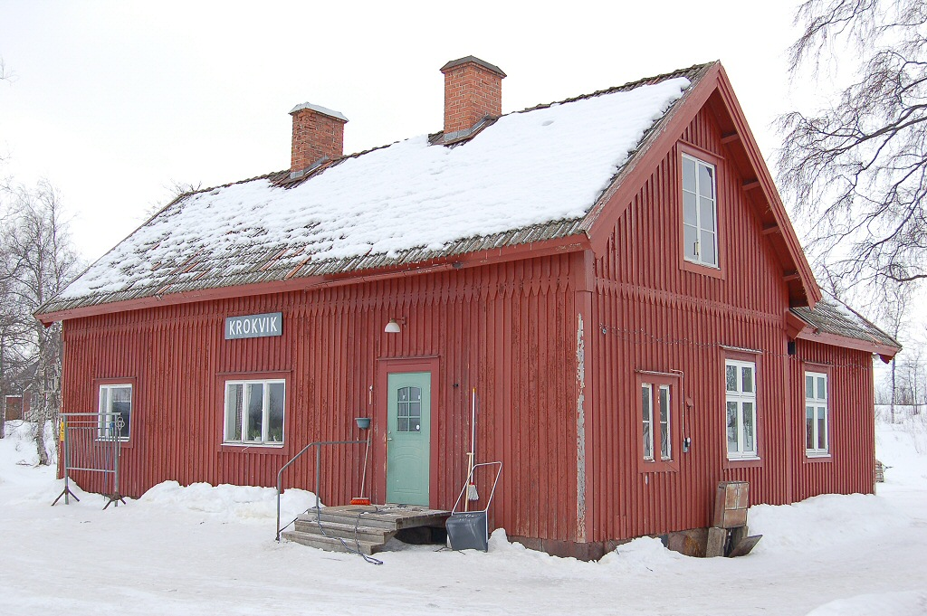 Krokvik railway station on Malmbanan in Sweden